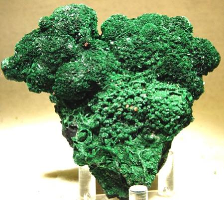 Atacamite Locality: Mount Gunson Mine, Mt Gunson, Stuart Shelf area, Andamooka Ranges - Lake Torrens area, South Australia, Australia (Locality at ) A large, uncommon, pretty and very rich specimen of atacamite from AUSTRALIA. The crystals show two generation of growth, with the upper part of the specimen having the second generation of smaller, darker platy crystals on two “knobs” that are accented by the lighter-colored crystals on the bottom of the specimen. The back of the specimen is fine as well, and it can actually be displayed that way. 9 x 8 x 3.3 cm